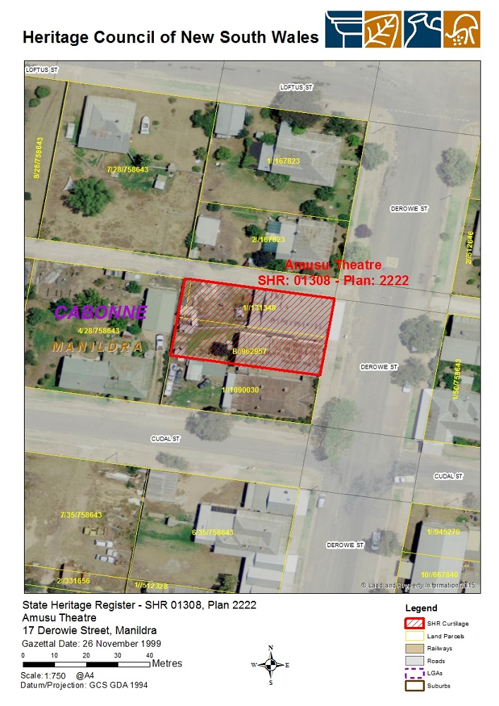 Amusu Theatre: SHR Plan 2222